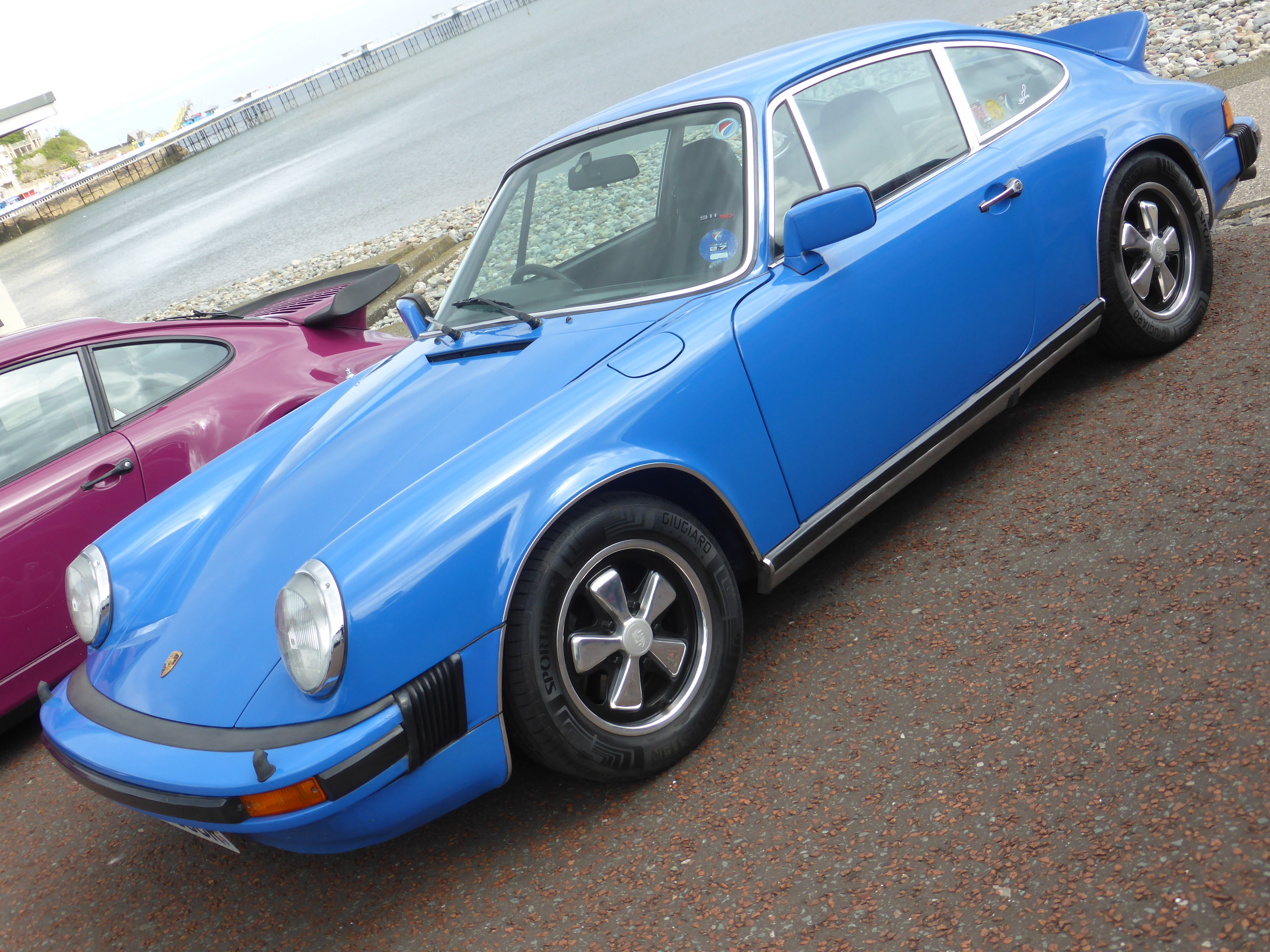 Porsches on the Prom at Llandudno